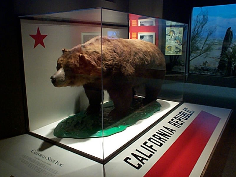 mascot of the bear flag republic but reputedly its last brown bear; on display at the California Academy of Sciencesmonarch the bear